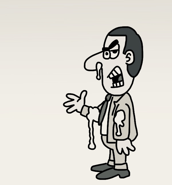 Sneeze in your sleeve